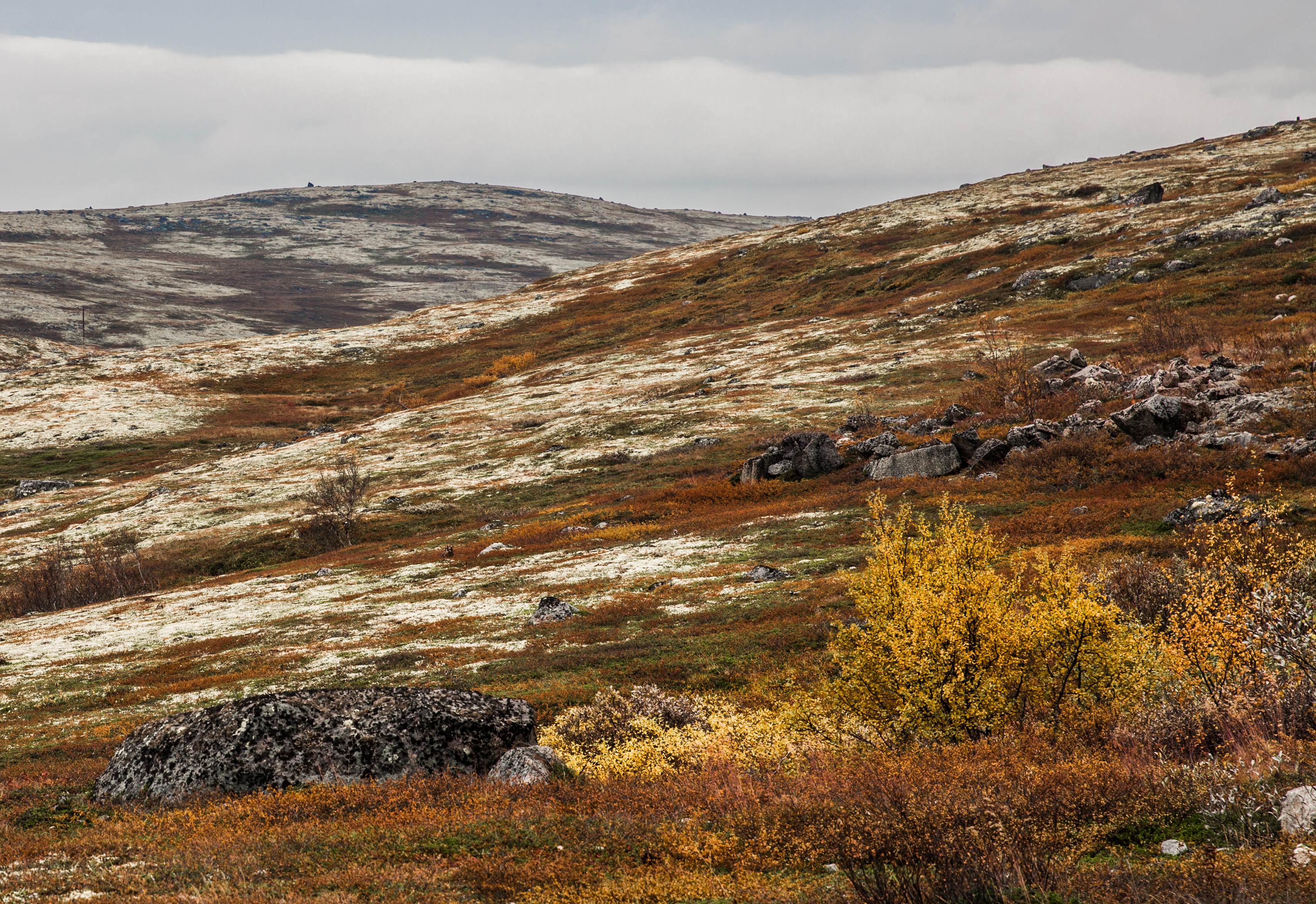 Kola Peninsula tundra